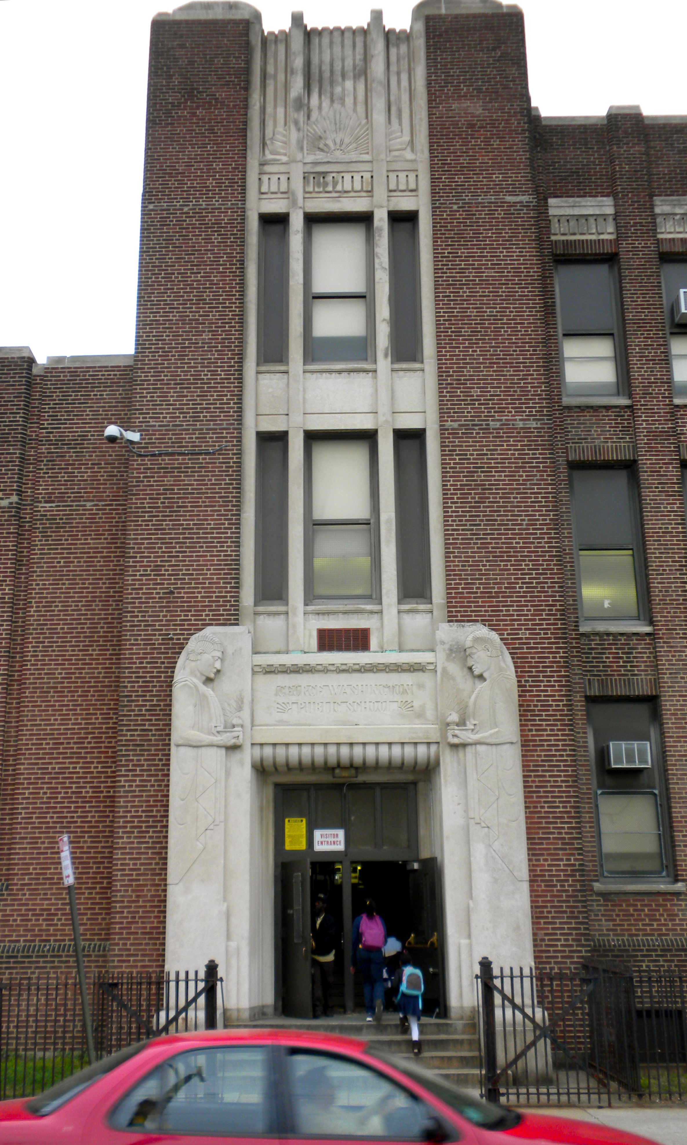 George Washington School, on the NRHP since December 4, 1986. At 1198 South 5th Street in Philadelphia, PA, Dickinson Square West neighborhood. Since 2013, this building is occupied by Vare-Washington School